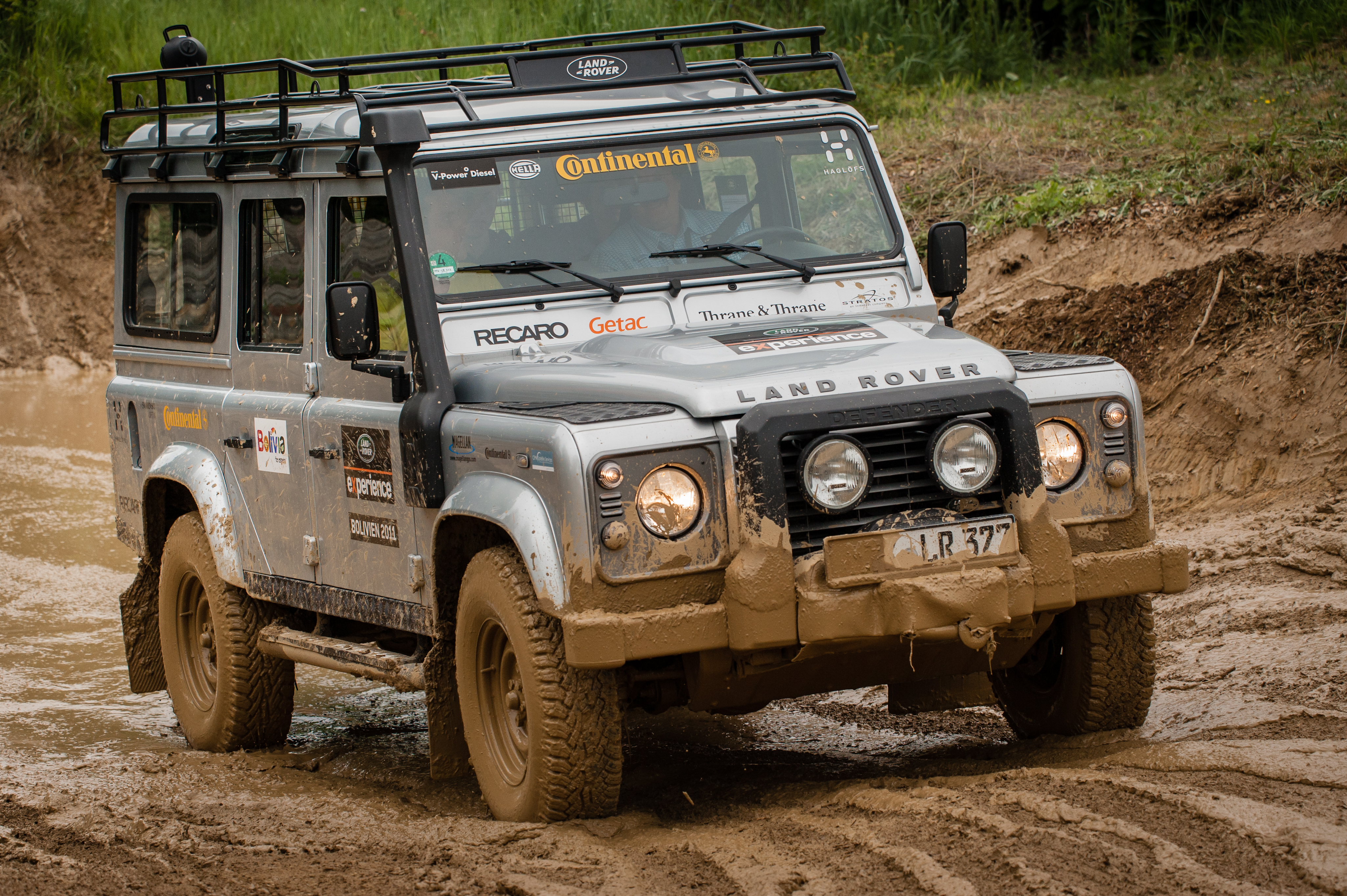 Land Rover Defender 110, special edition "Experience Bolivia" in the off-road track at the exhibition "Abenteuer&Allrad" in Bad Kissingen, Germany. The limited edition of 140 copies based on the Defender 110 Station Wagon differs from the production model in its silver metallic paint, heated Recaro front seats, air conditioning, ABS and traction control, and is available from 46,500 euros. Covered under the hood, the new 122 horsepower 2.2-liter four-cylinder diesel engine from Ford. Prominent features are sponsor stickers, checkered plates, black steel wheels, aluminum underride protection, front guard with electric winch plus auxiliary head lamps including a working lamp. Furthermore a roof rack with baggage guard and a two-piece ladder. Thanks to an extended air intake, the wading depth of the Expedition Defender is more than 20 inches.